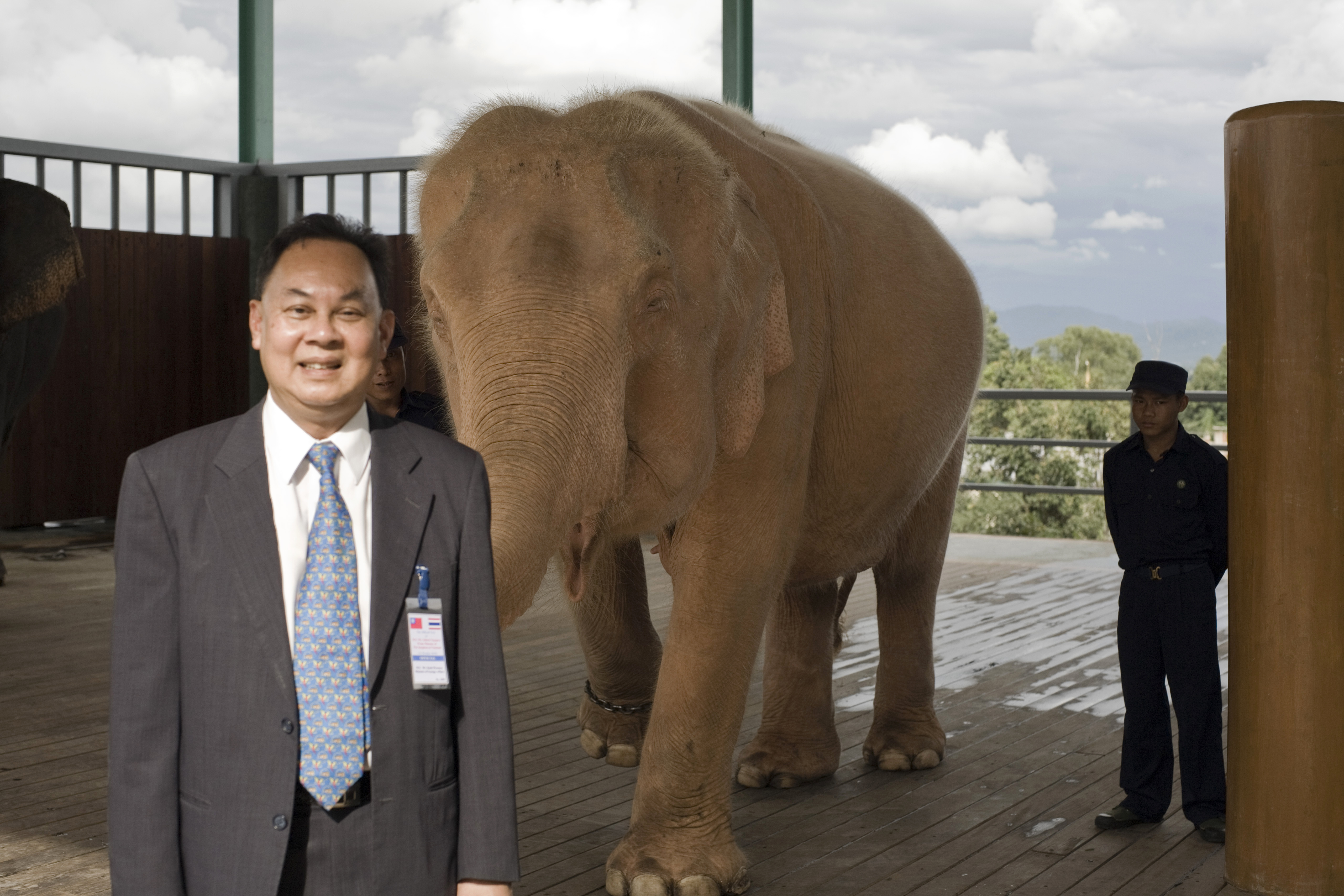 White elephant at Naypyidaw's Uppatasanti Pagoda